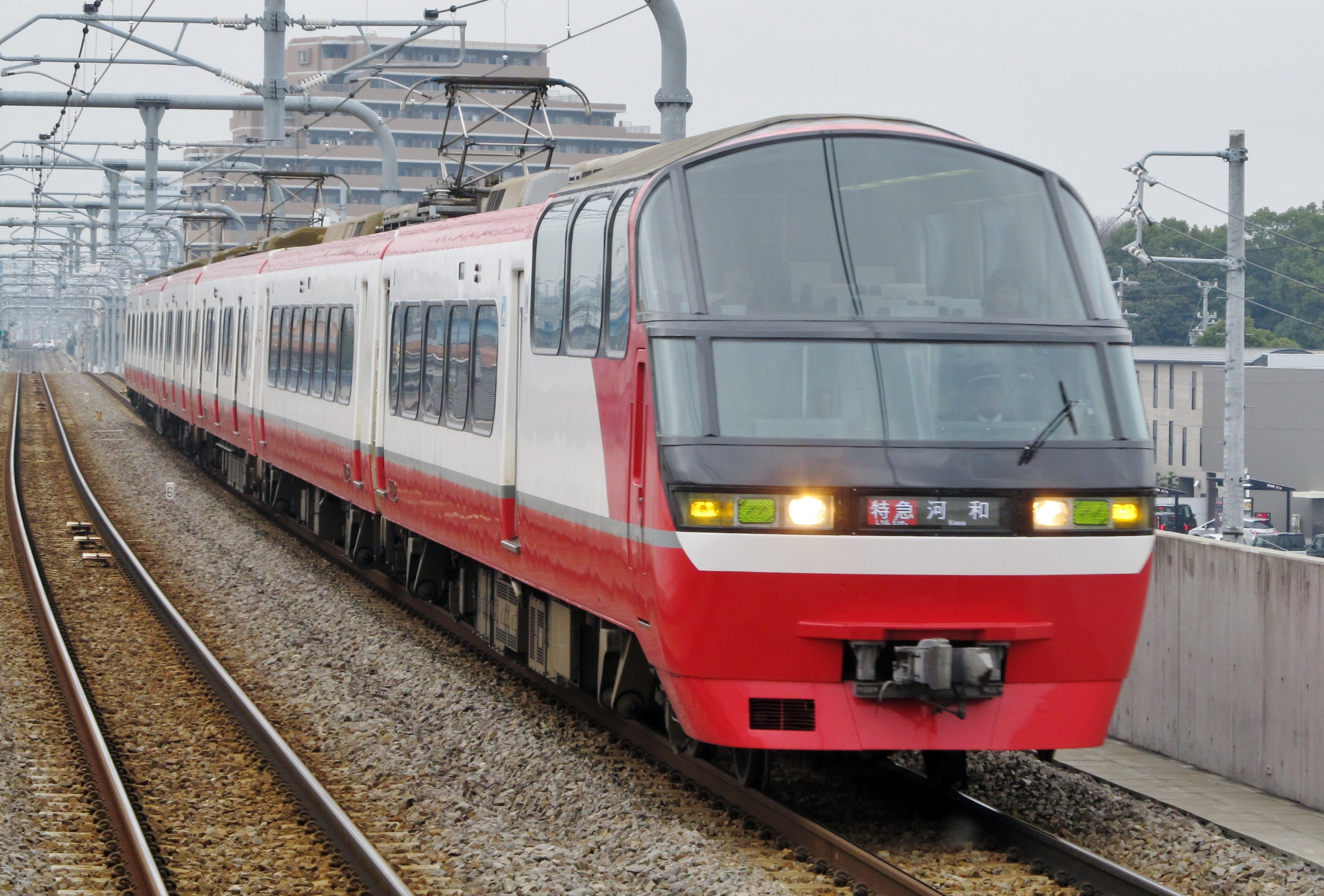 Meitetsu refurbished 1200 series EMU set 1112 on a Limited Express service for Kōwa